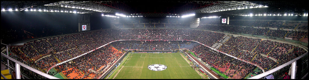 S.Siro stadium